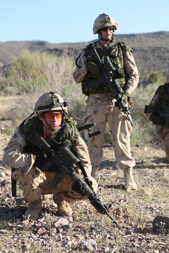 Canadian Infantry Soldiers of November Company, 3rd Royal Canadian Regiment wait for pickup from North Tac Airfield, Luke Air Force Base, Ariz., Apr 15, 2011. The Canadians were participating in a CH-46 Long Range Raid of CH-46 Tactics 5, part of Weapons and Tactics Instructor Course 2-11, hosted by Marine Aviation Weapons and Tactics Squadron 1.